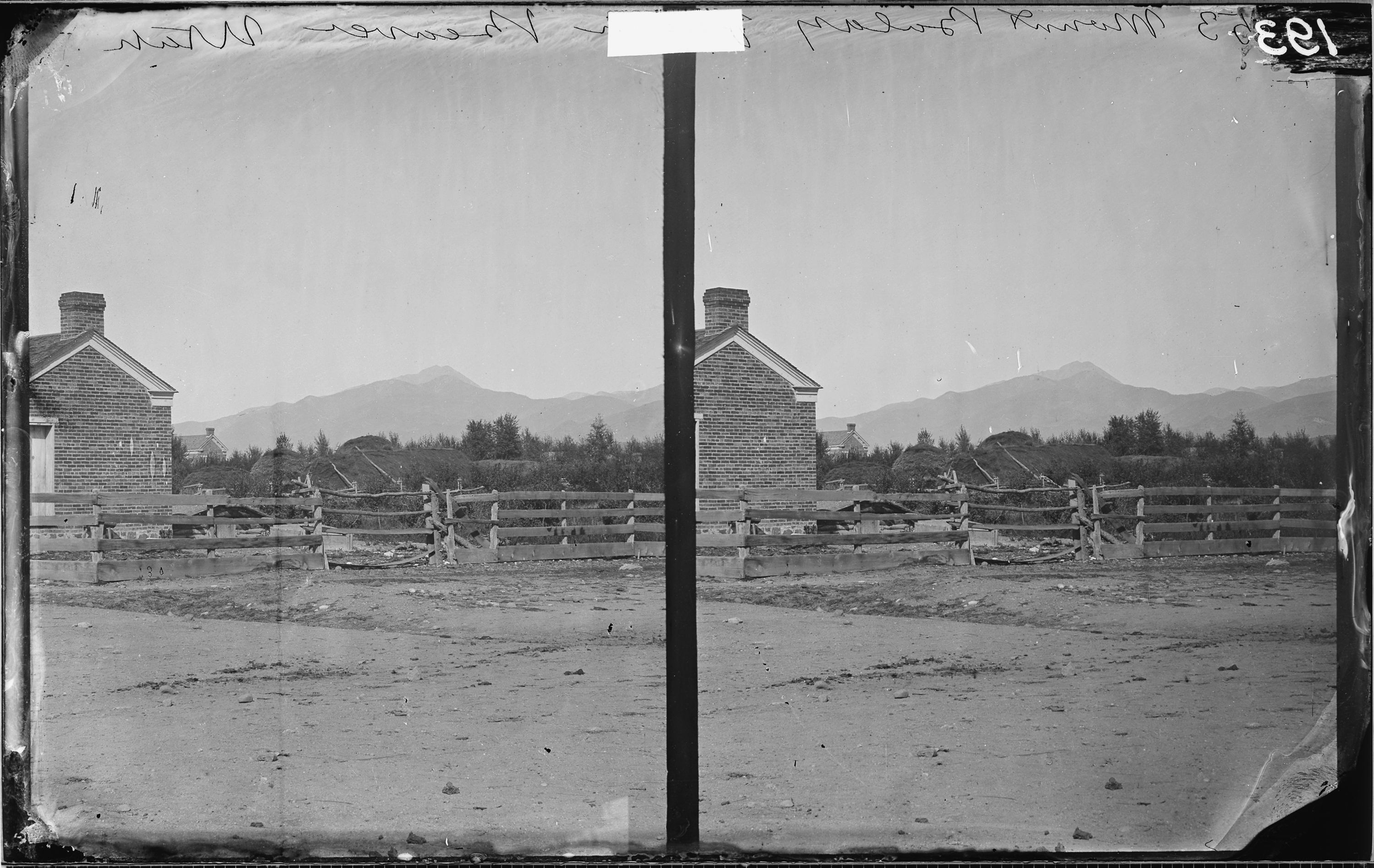 General notes: Photographed by William Bell as part of the 1872 Wheeler Survey.